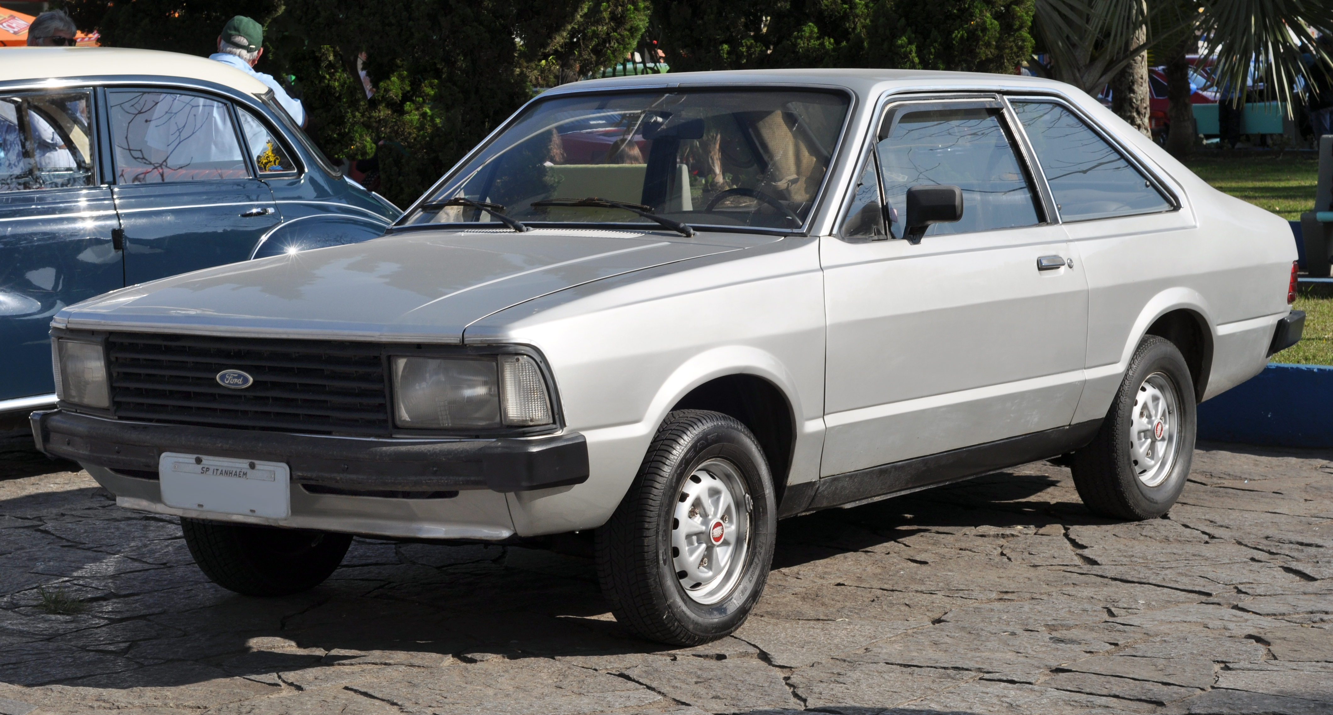 Ford Corcel II at the Exposição carros antigos classic car show in Itanhaém, Brazil (SP)